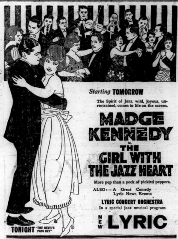 Newspaper advertisement for the American comedy film The Girl with the Jazz Heart (1921) with Madge Kennedy, on page 15 of the October 26, 1920 The Duluth Herald. Note: IMDb lists the opening date for this film as 7 Jan. 1921, which is obviously incorrect with this ad in this 1920 newspaper.